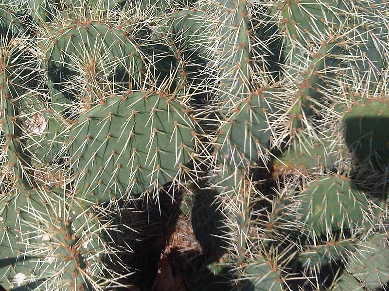 Opuntia humifusa in Kew Gardens, England.